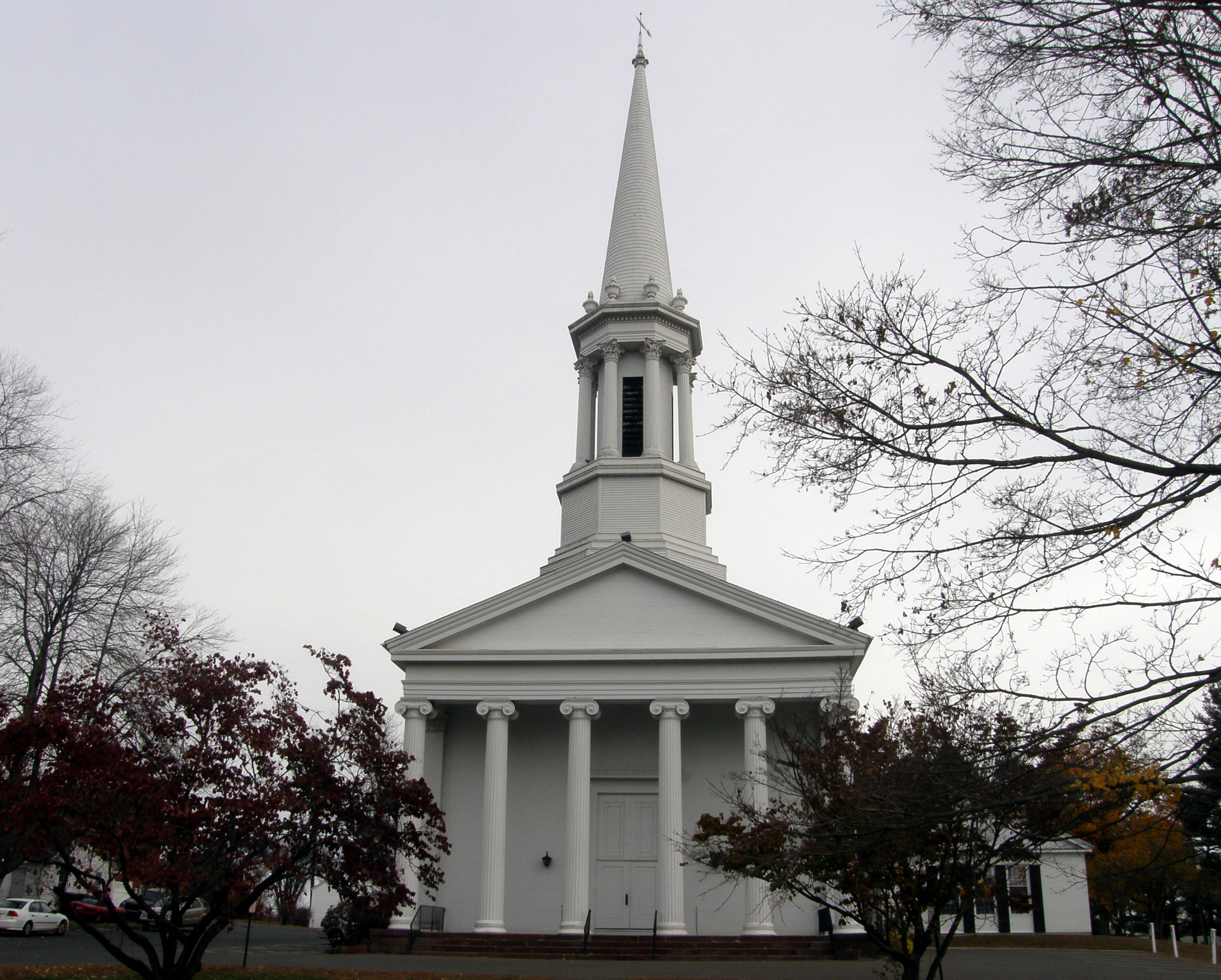 Front of church designed by Sidney Mason Stone in 1848